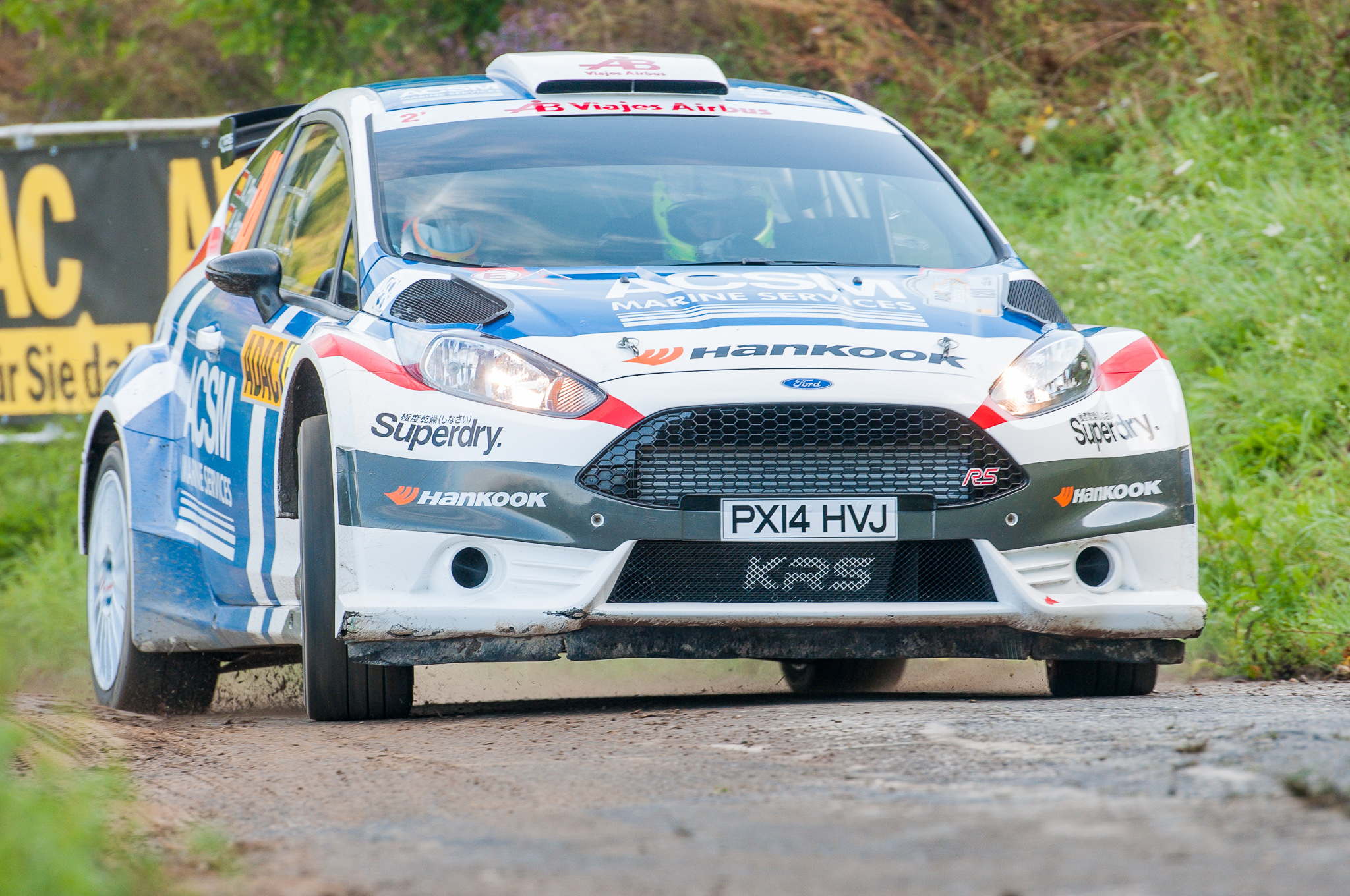 ACSM Rallye Team,ADAC Rallye Deutschland 2014,Alex Haro,Dhrontal,FIA,FIA World Rally Championship,Ford Fiesta R5,Motorsport,Rally,Rallye,SS15,WP15,WRC,Xavier Pons